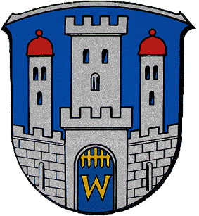 Coat of Arms of Witzenhausen